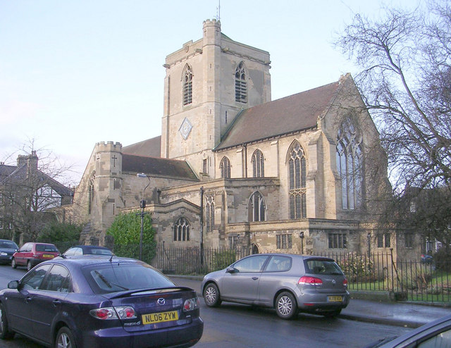 St Mary's parish church, Westcliffe Grove, Harrogate, North Yorkshire, seen from the east